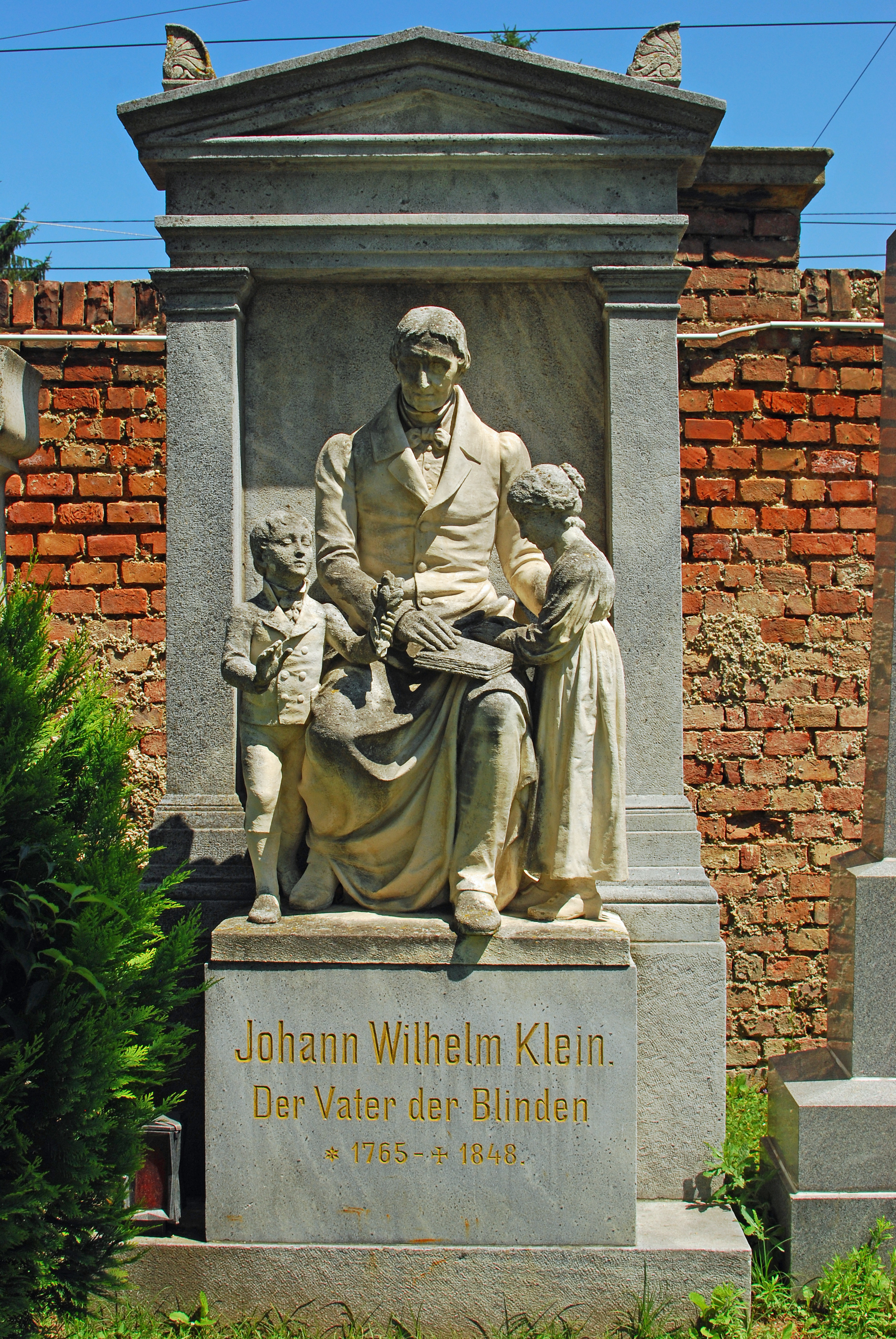 Johann Wilhelm Klein, Father of the Blind, Central Cemetery of Vienna